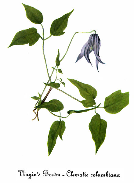 Watercolor painting of Clematis_columbiana-1.